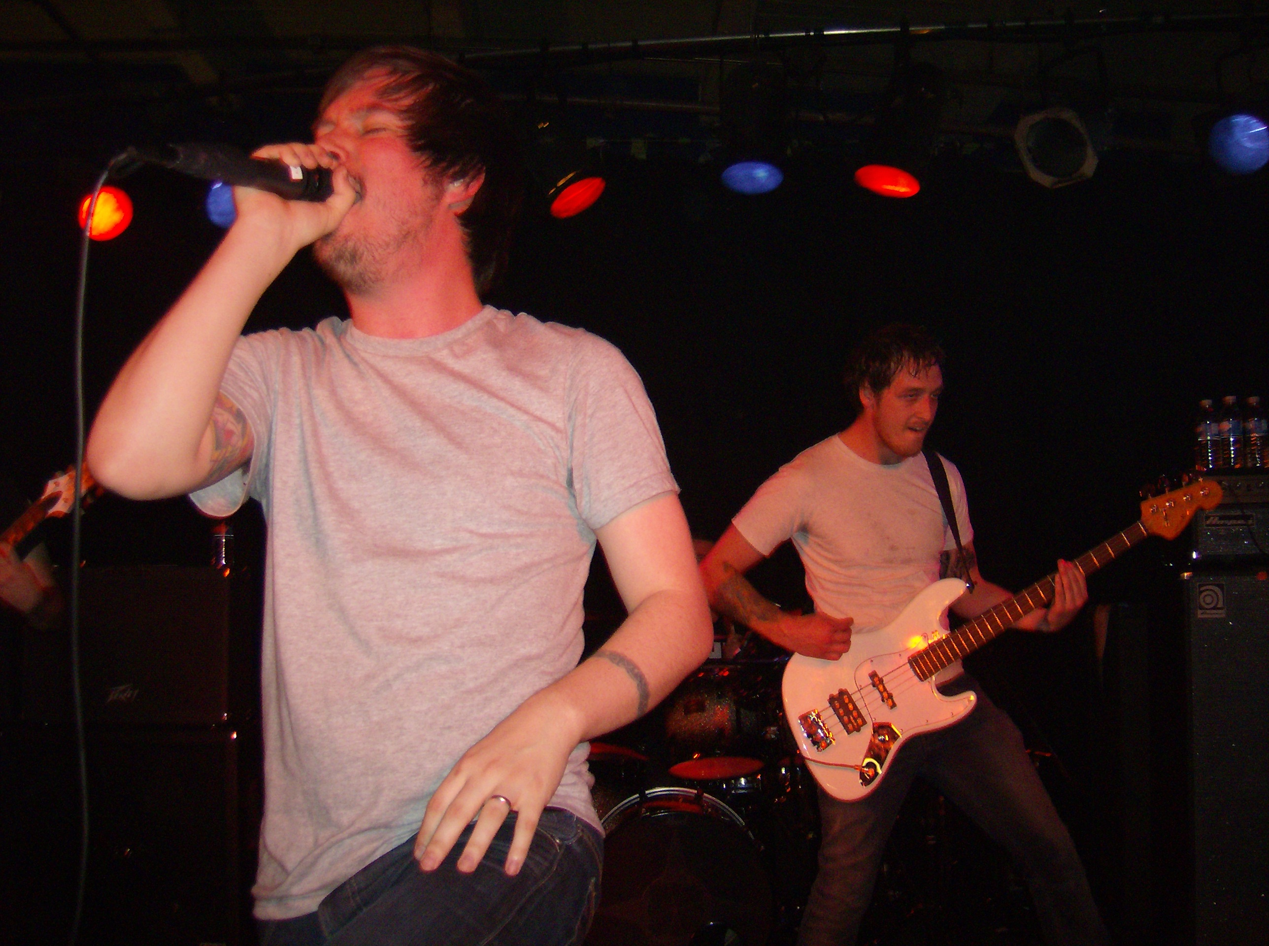 FFAF in Detroit, MI 2009.